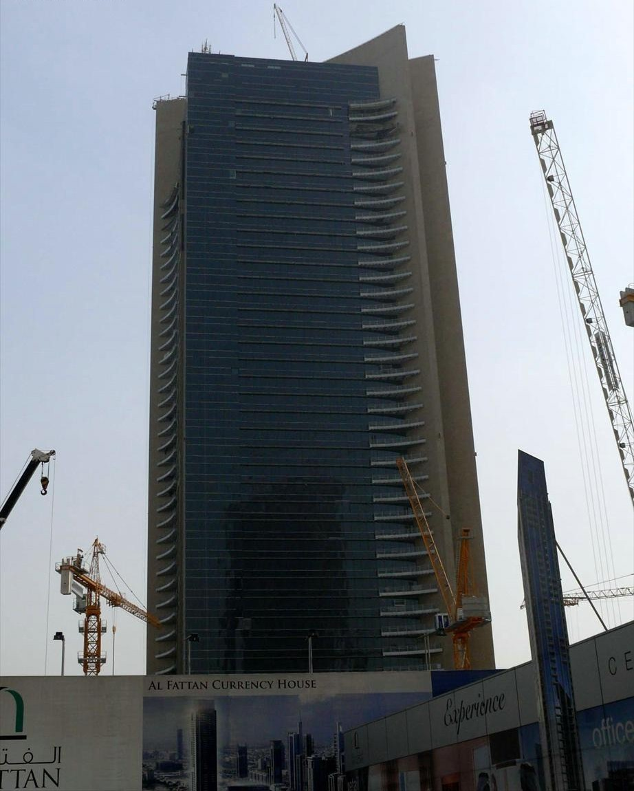 This is a photo of Sky Gardens, located in Dubai International Financial Centre in Dubai, United Arab Emirates, on 7 March 2008.